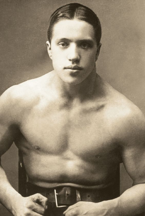 Estonian weightlifter Alred Neuland in the 1920 Summer Olympics in Antwerp.